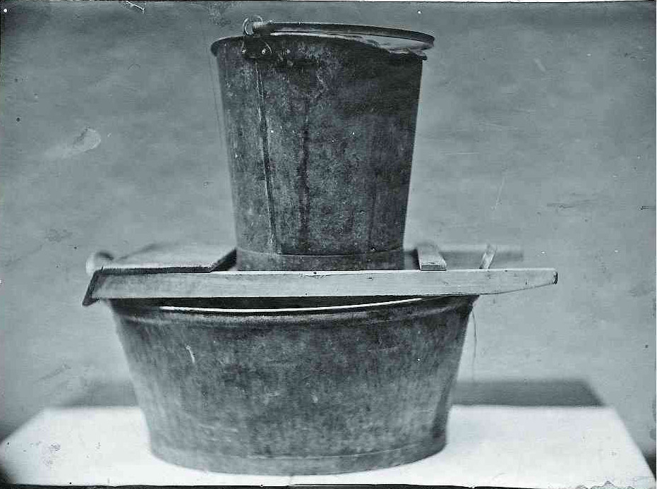 The bucket that the baby farmer Hilda Nilsson used to drown her infants.